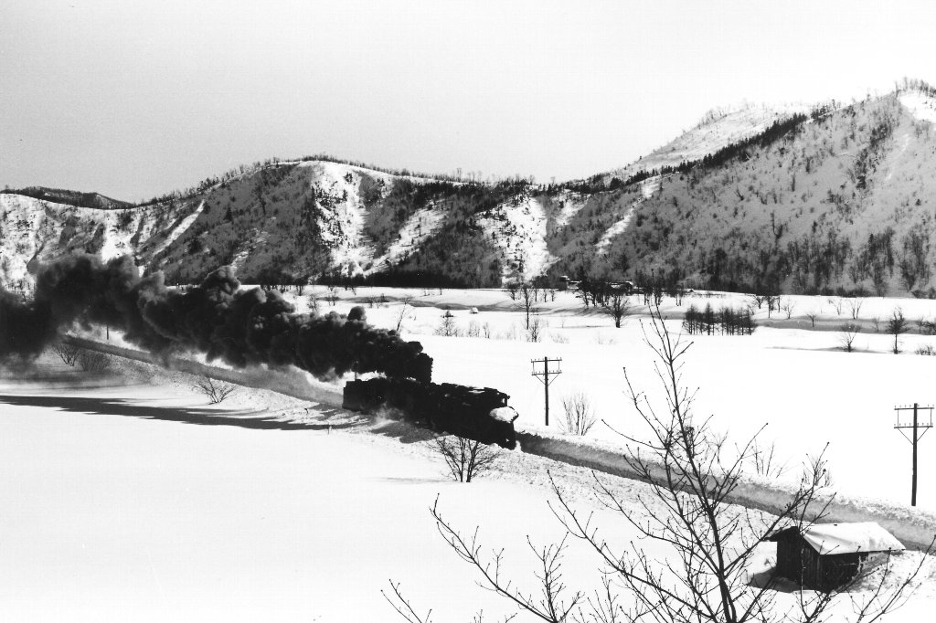 Snow removal train on Nayoro Main Line between Kami-Okoppe and Ichinohashi